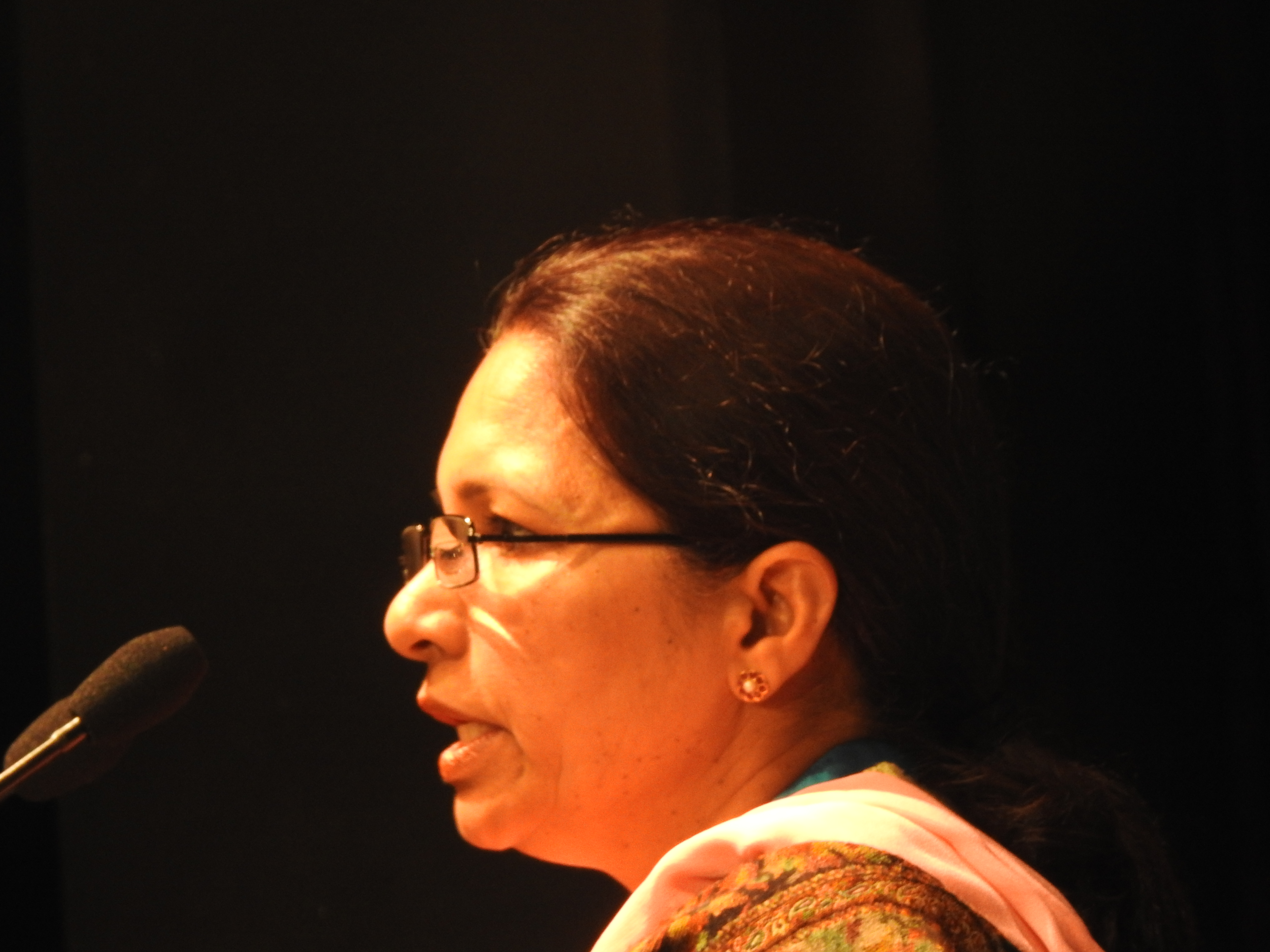 Punjabi language Poets' Meet is an event organised by Punjabi Literray Academy , Delhi annually on occasion of Republic Day (India) . It is part of series of celebrations on this day . Similar event is organised on 15 August , the Independence day of Indian Nation .